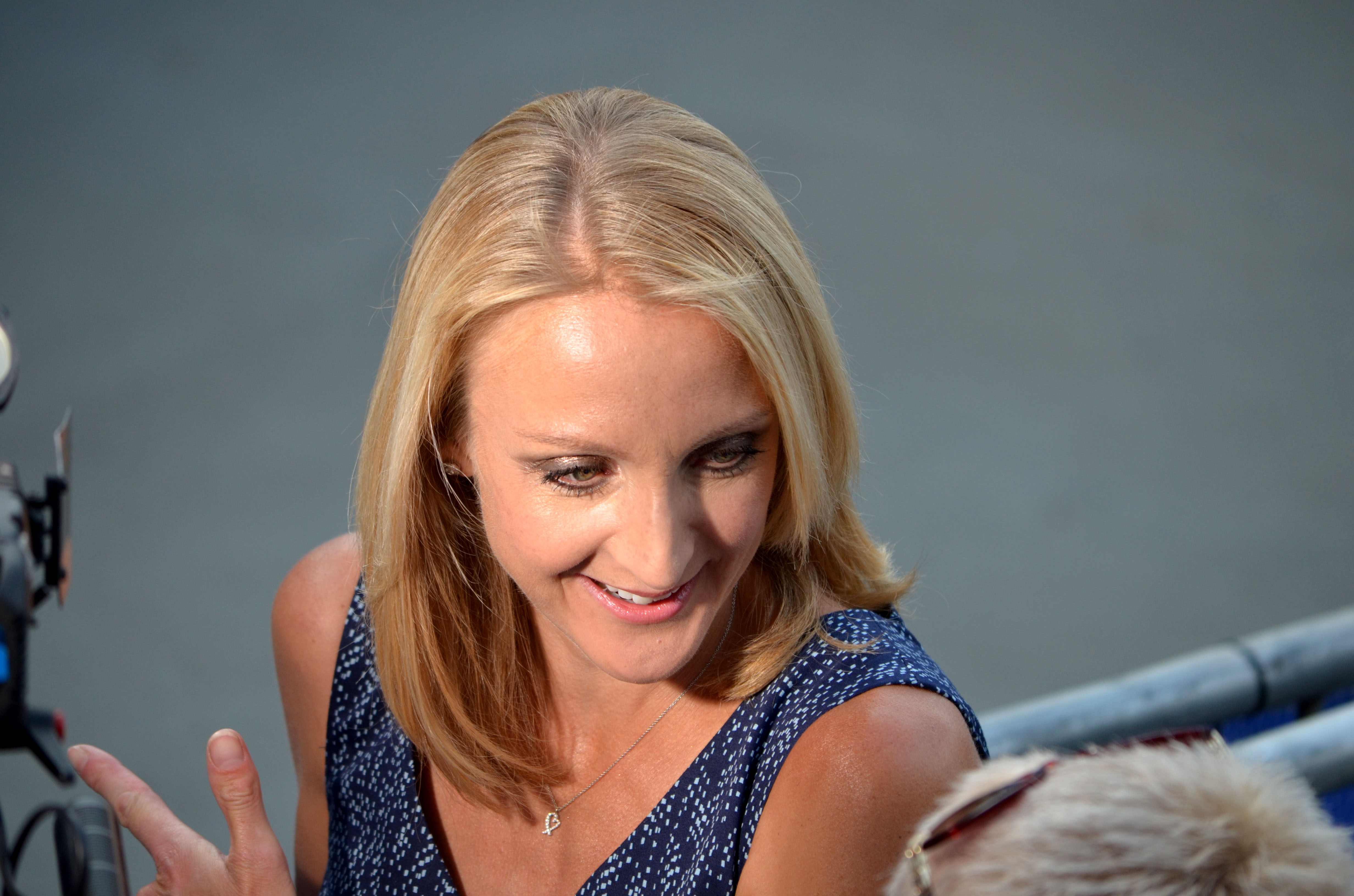 Anniversary Games 26/07/2013